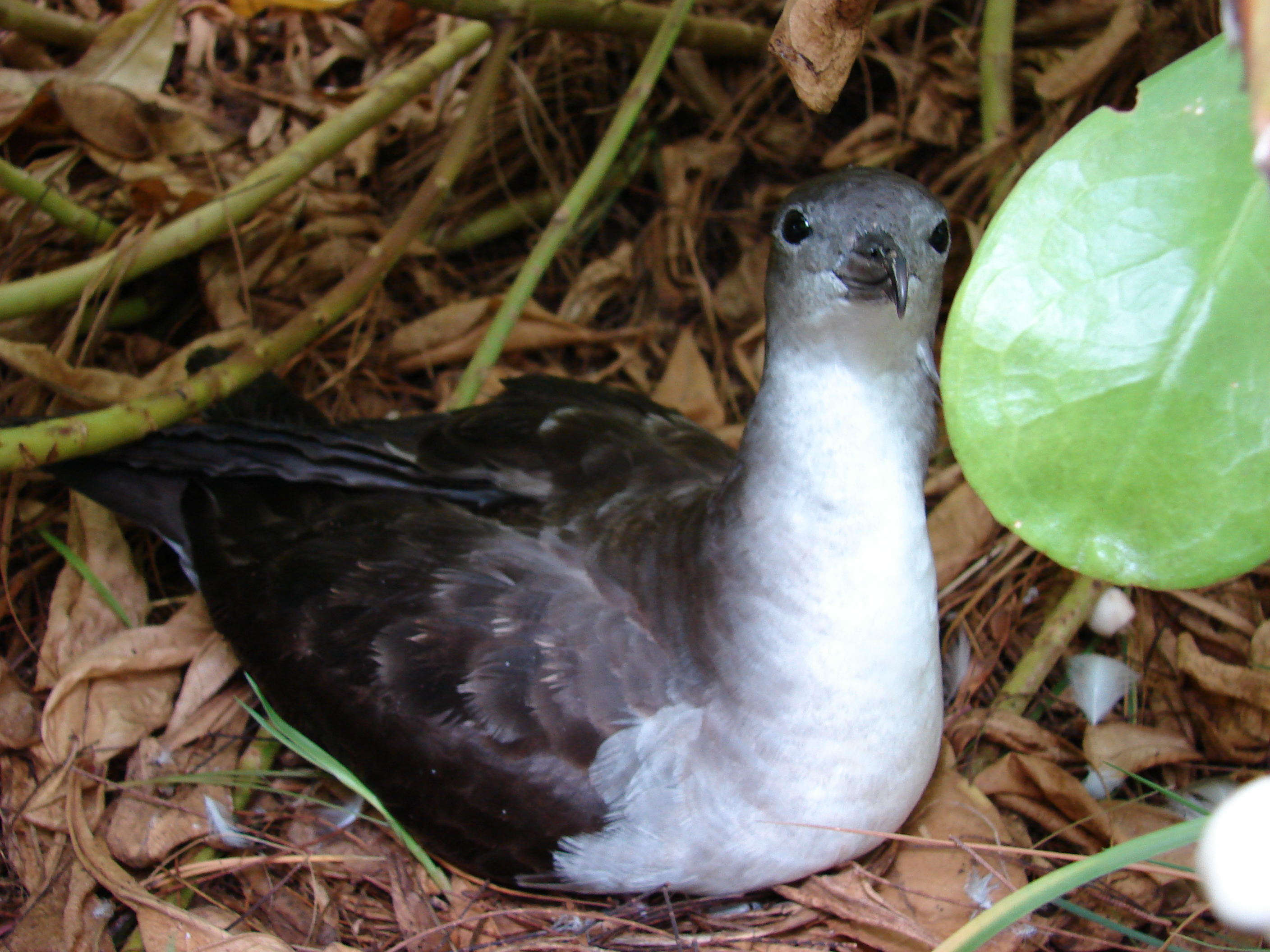 Scaevola taccada (habit and wedge tailed shearwater). Location: Maui, Kamaole Point Kihei